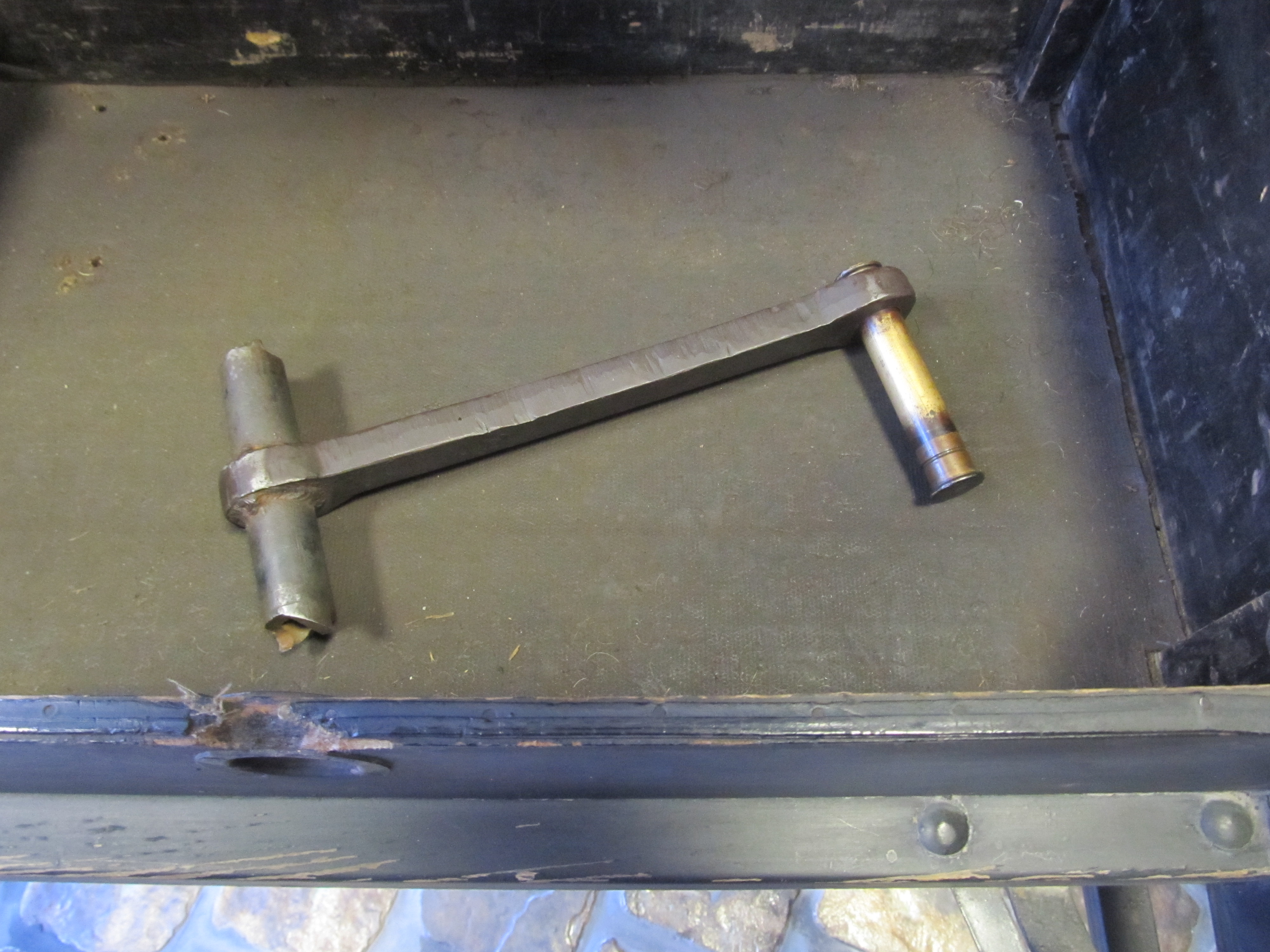 Automobile crank (starter crank).1908 Holsman vehicles. Holsman Automobile Co. Technical museum of Vadim Zadorogny collection.